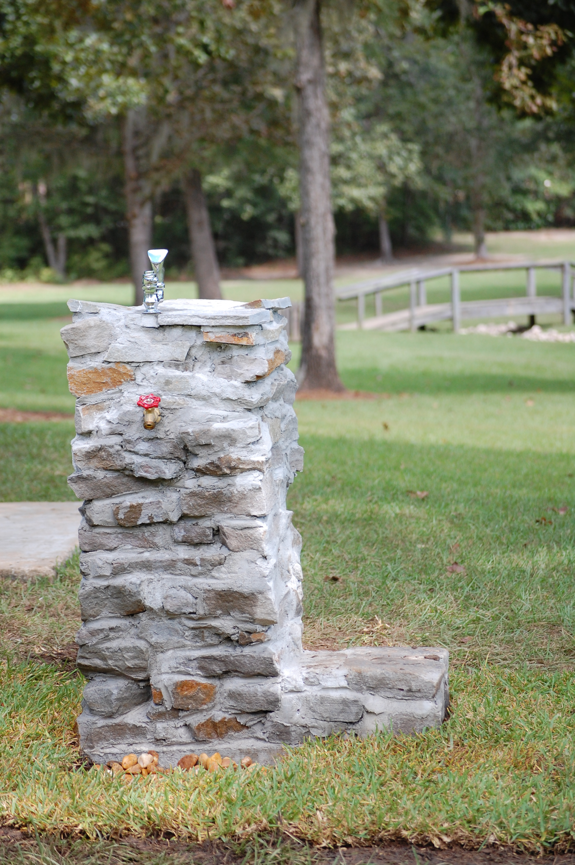 An example of a public drinking fountain built as an Eagle Project.